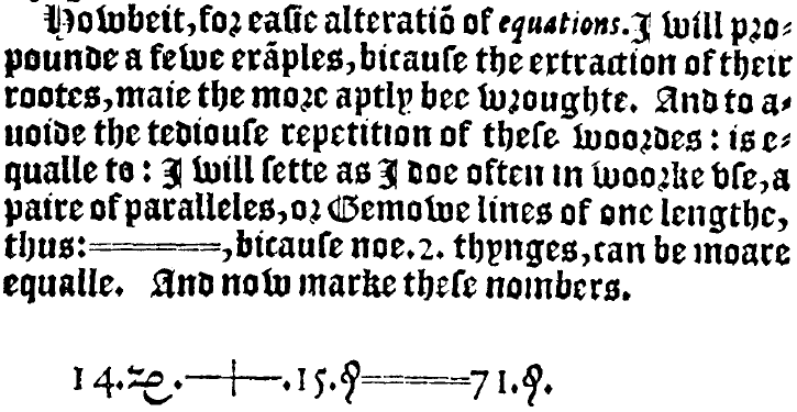 Unicode character U+003D equals sign in an English book from 1557, in fact introducing this character. Source: Robert Recorde, The Whetstone of Witte, London 1557, p.238 Howbeit, foꝛ eaſie alteratio̅ of equations. I will pꝛo⹀ pounde a fewe exa̅ples, bicauſe the extraction of their rootes, maie the moꝛe aptly bee wꝛoughte. And to a⹀ uoide the tediouſe repetition of theſe wooꝛdes : is⹀ qualle to : I will ſette as I doe often in wooꝛke vſe, a paire of paralleles, oꝛ Gemowe lines of one lengthe, thus: ======, bicauſe noe .2. thynges, can be moare equalle. And now marke theſe nombers.